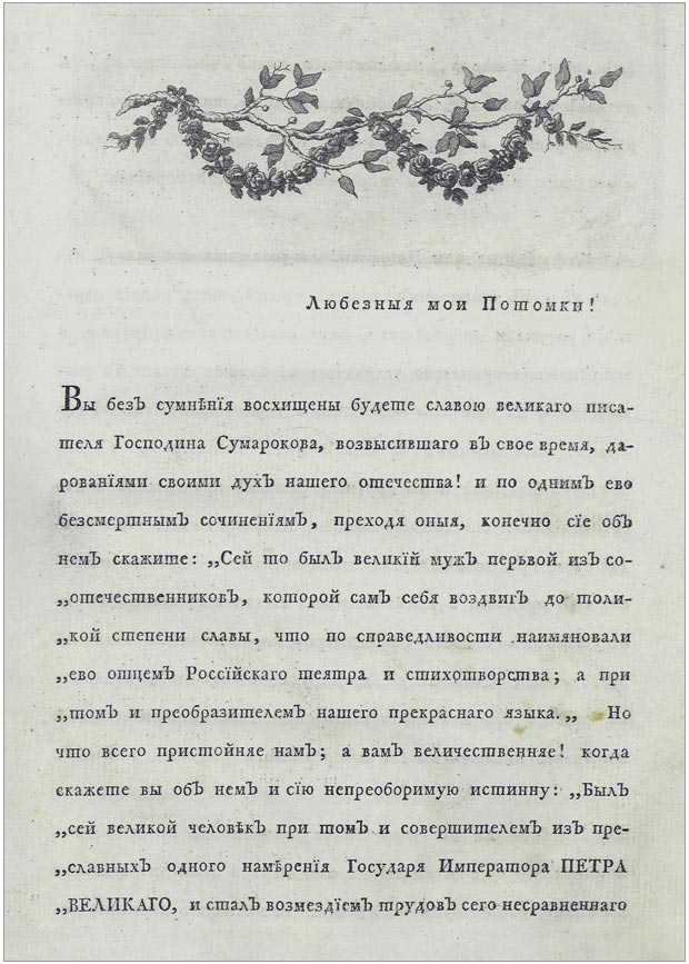 Page from "The Apology to Generations" by Nikolai Struyskiy printed in Saint-Petersburg about 1788.